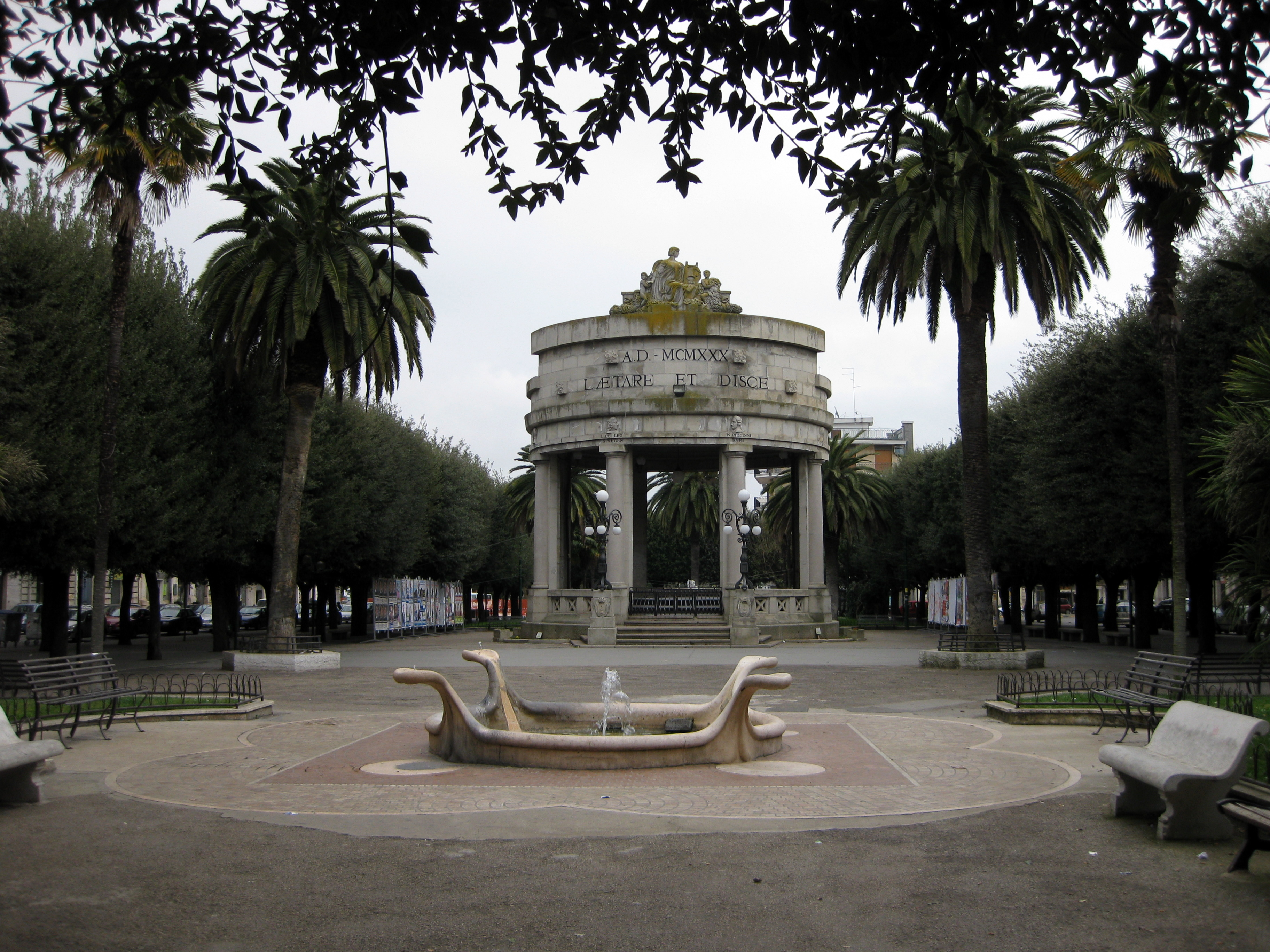 Acquaviva delle Fonti, Bari, Puglia, Italy